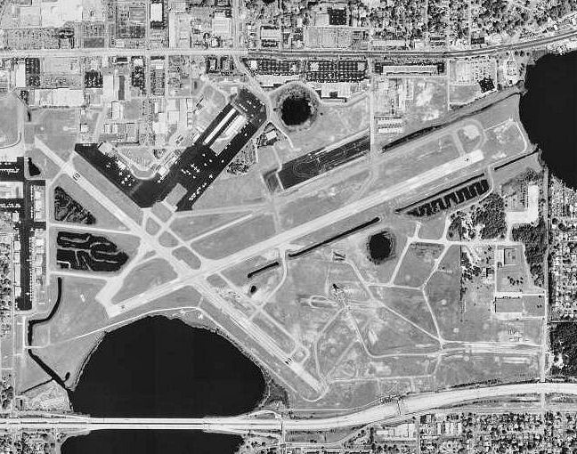 Aerial image of Orlando Executive Airport, Florida